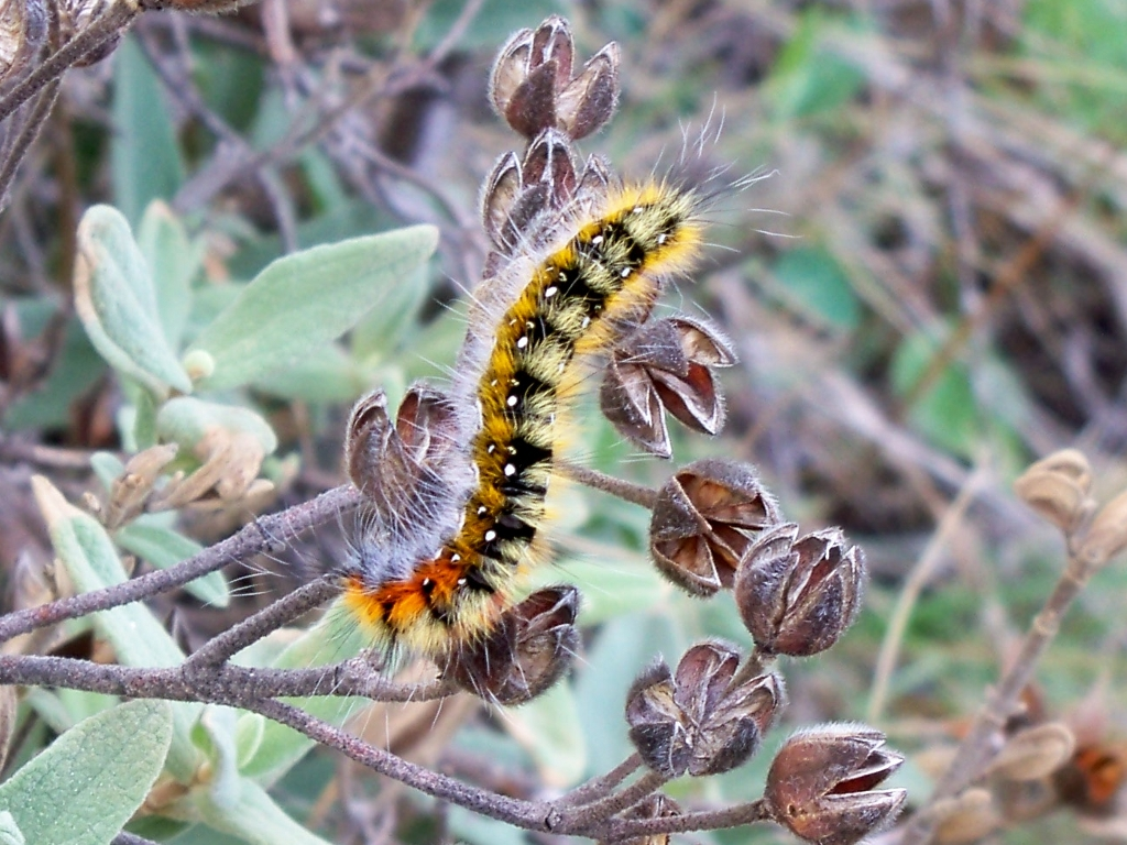 Psilogaster loti caterpillar, in Sierra de Mijas, Málaga, Spain.